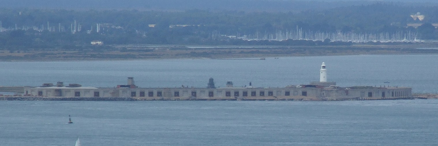 Hurst Castle, view from the Isle of Wight, UNITED KINGDOM